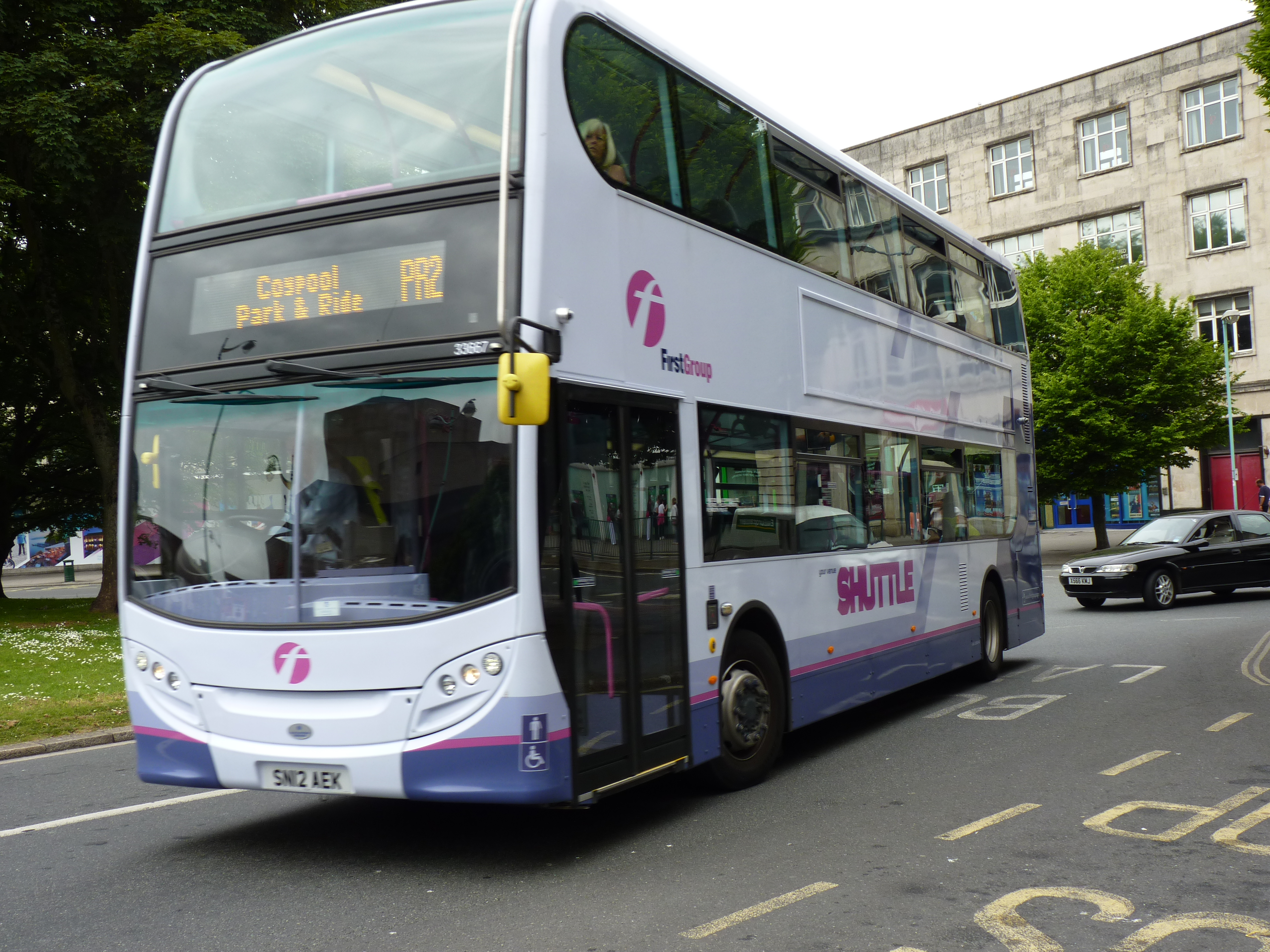 First Devon & Cornwall 33667 (SN12 AEK), a Dennis Trident/Alexander Dennis Enviro400 in Derrys Cross, Plymouth, Devon on route PR2. It is seen wearing the new First livery.